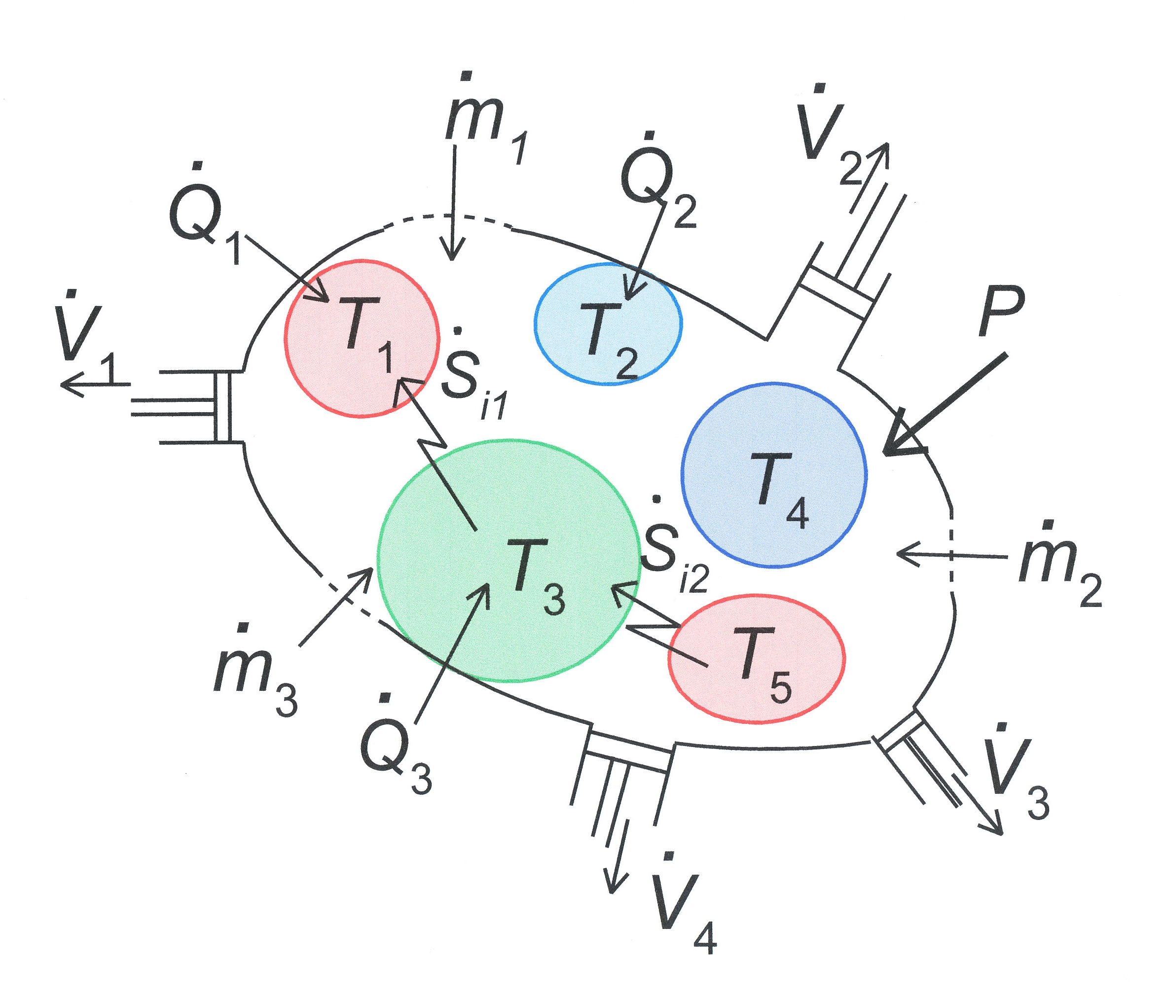 Modified general thermodynamic system